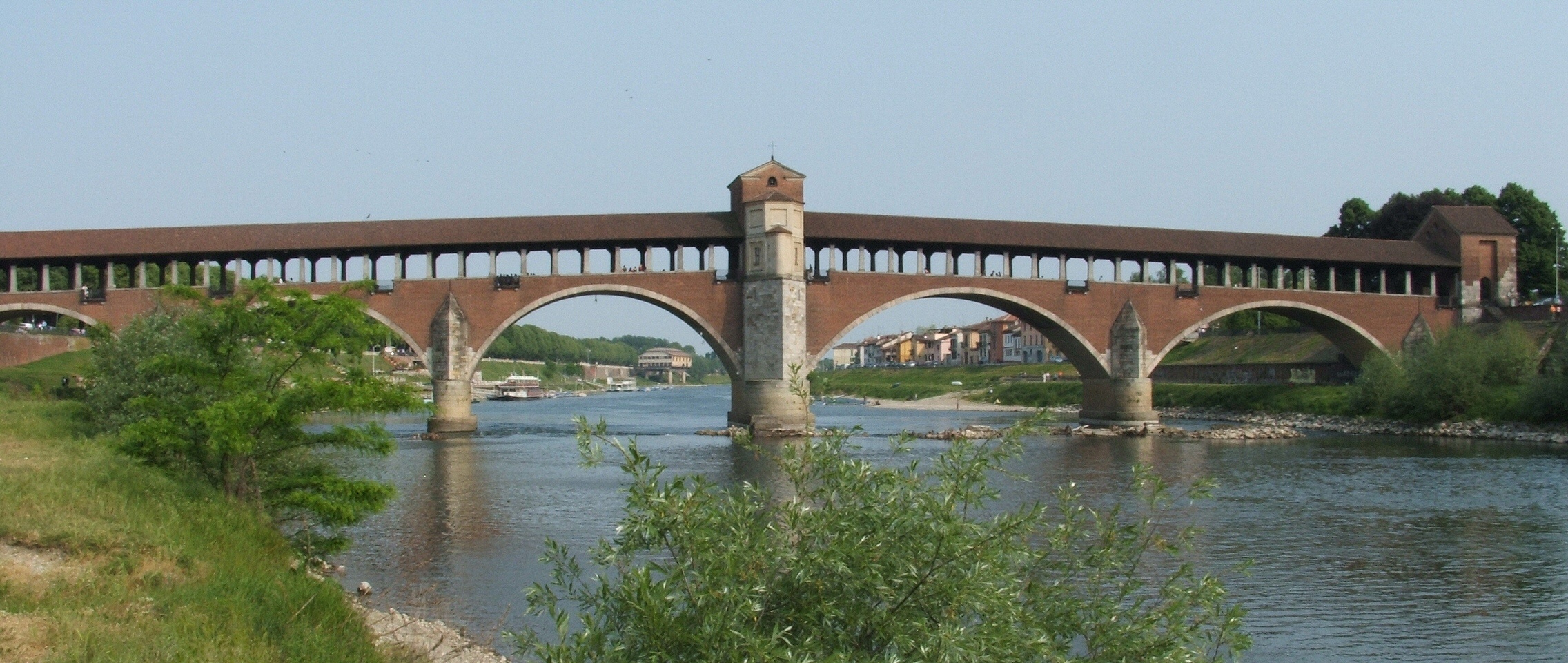 Pavia, Italy - Covered bridge on Ticino river